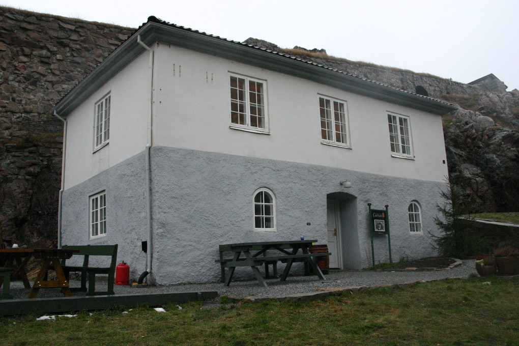 Fredriksten festning, Halden